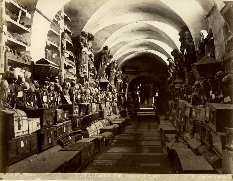 Giuseppe Incorpora (1834-1914), "Palermo - Catacombs of the capuchines". Catalogue # 20.